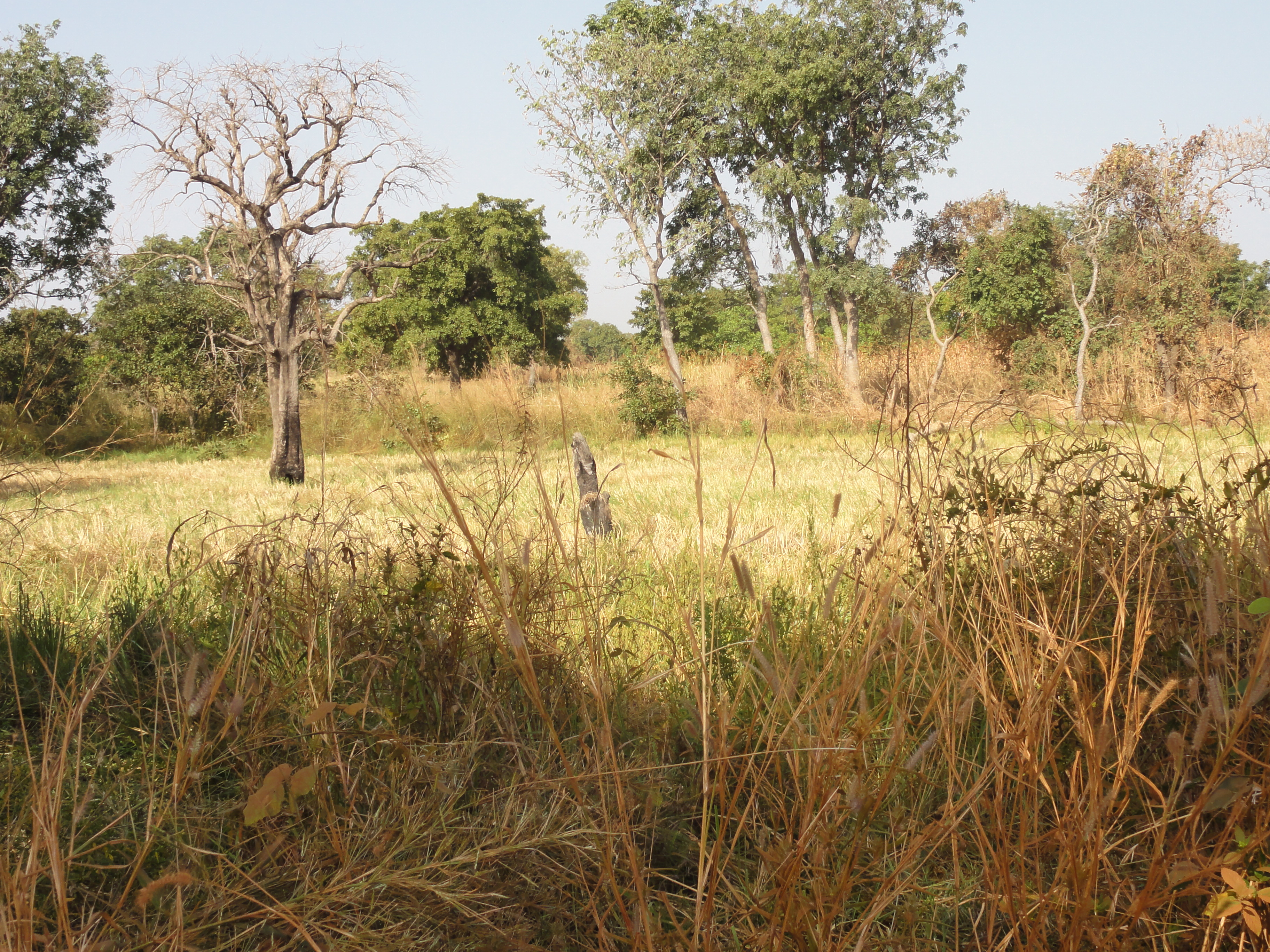 Rice cultivation in Benin